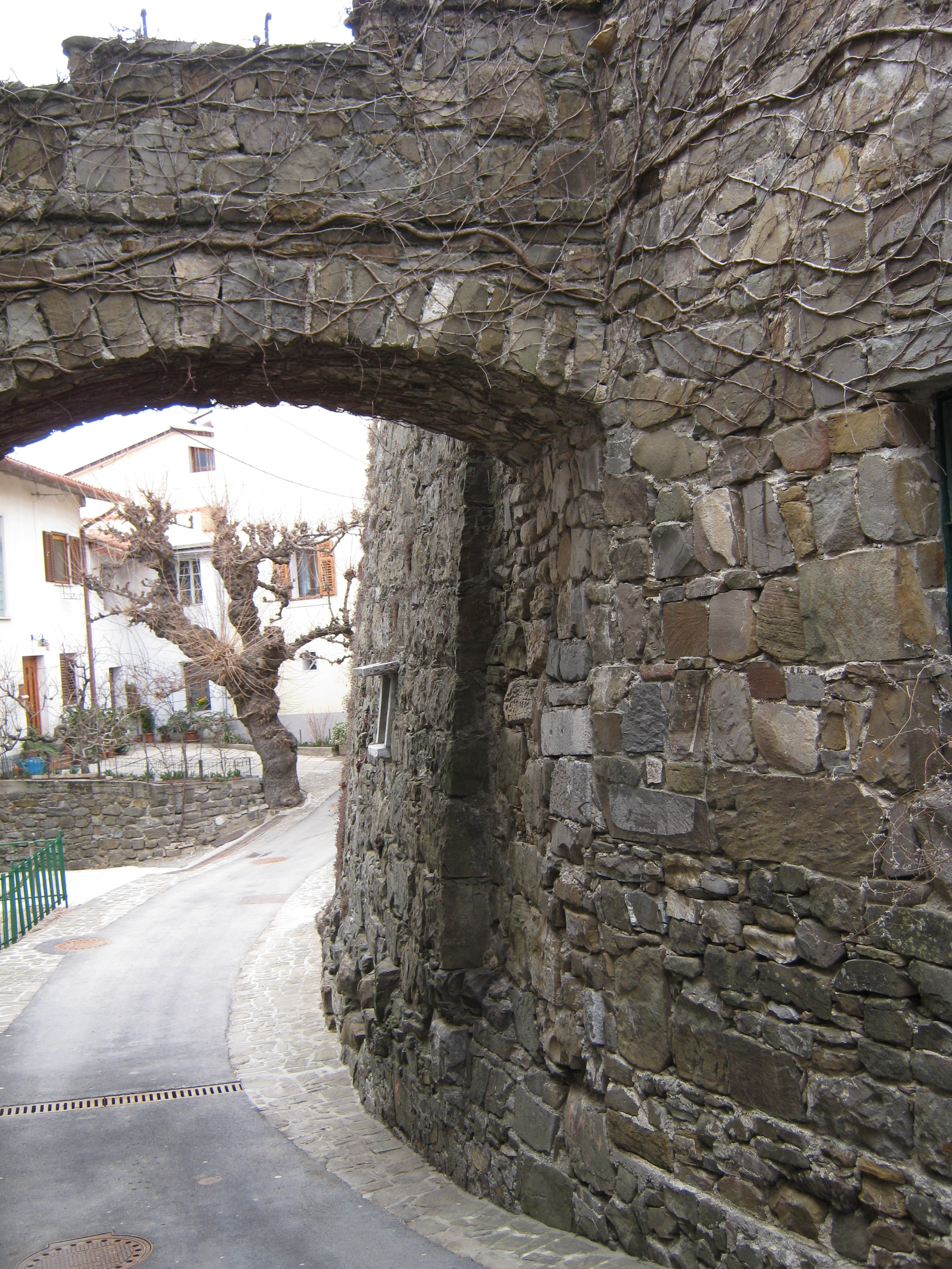 The inner wall in the village of Tabor (City Municipality of Nova Gorica), southwestern Slovenia.